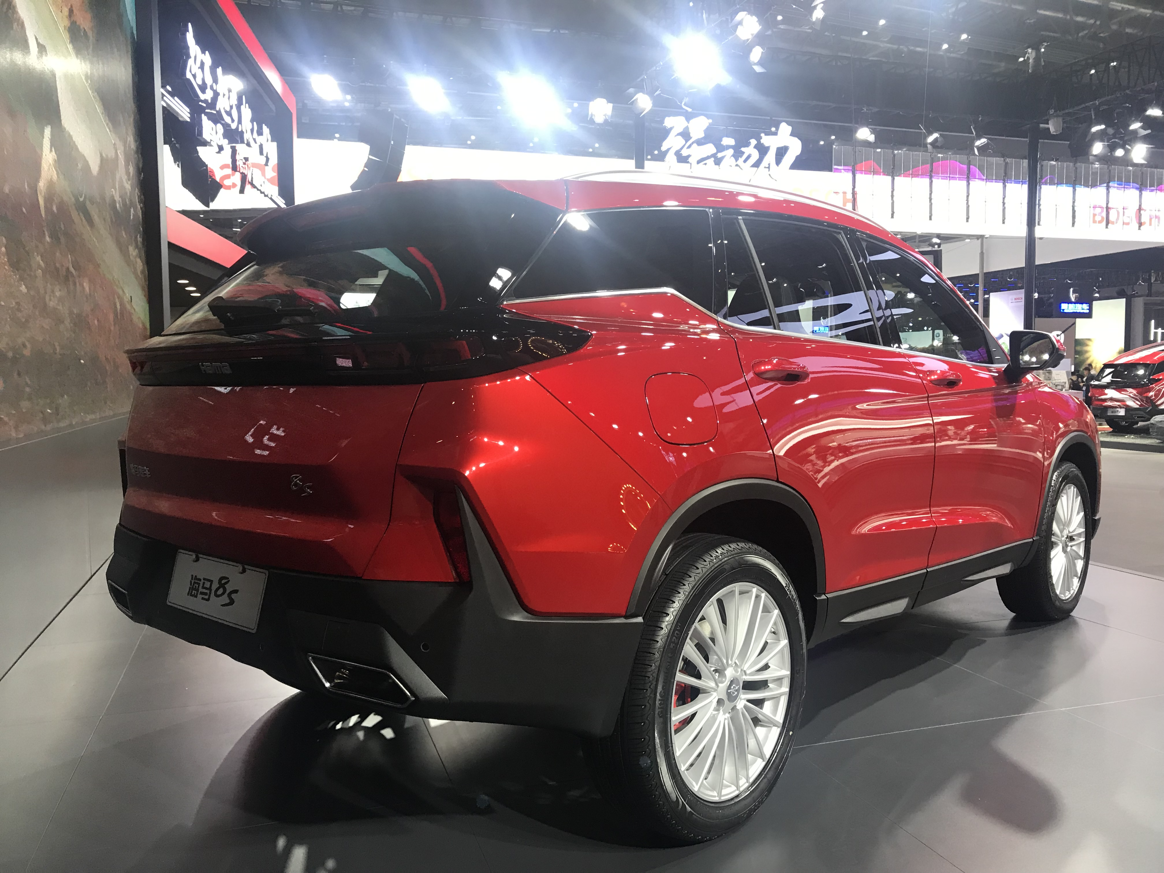 Haima 8S rear